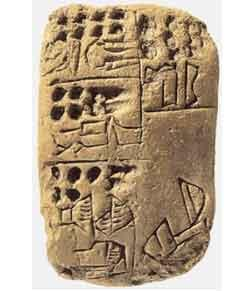 Uruk period administrative tablet, pictographic script.